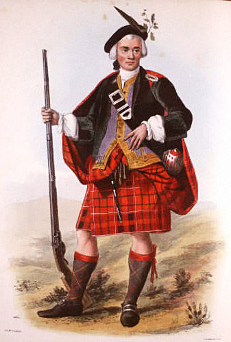 "Cameron". A plate illustrated by R. R. McIan, from James Logan's The Clans of the Scottish Highlands, published in 1845.